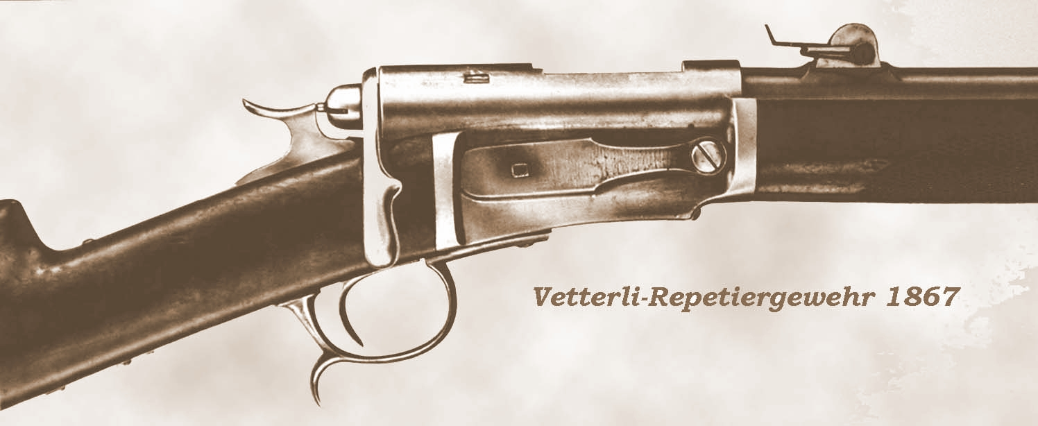 Vetterli prototype 1867